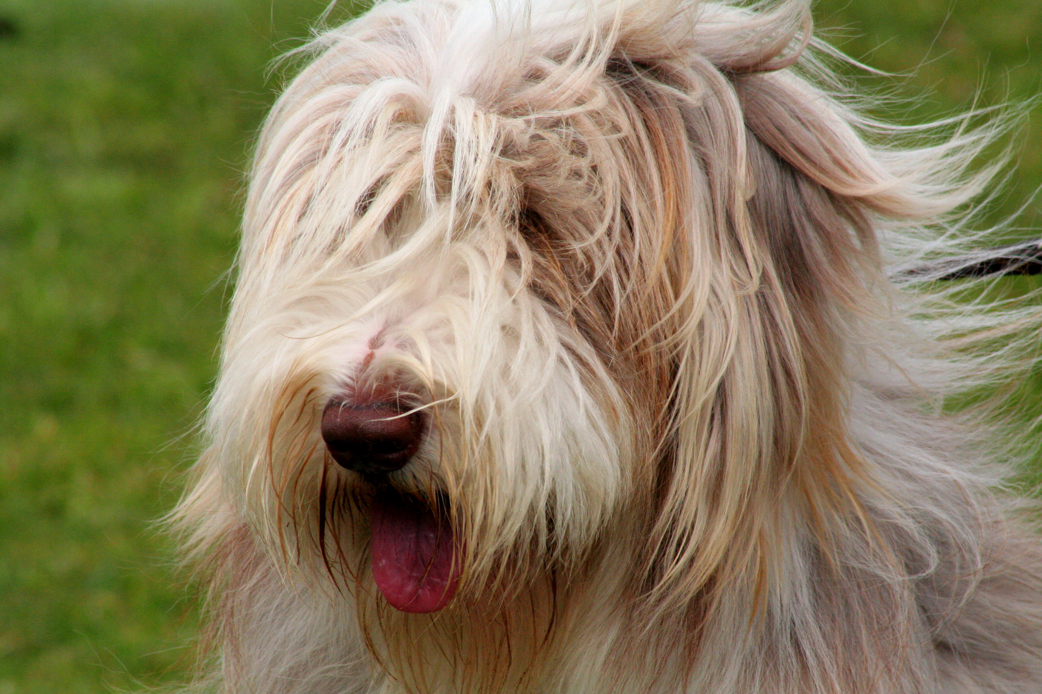 A "red" Bearded Collie.A shaggy dog story!